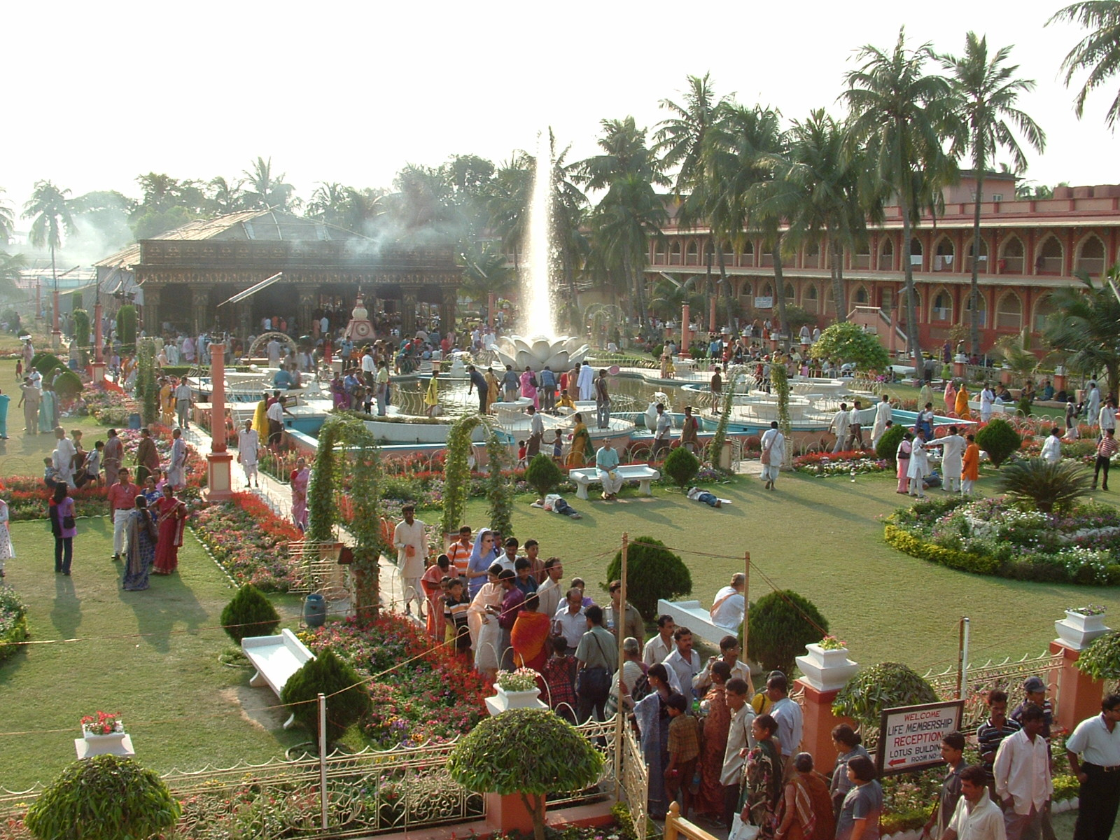 ISKCON headquarters in Mayapur, West Bengal 2006